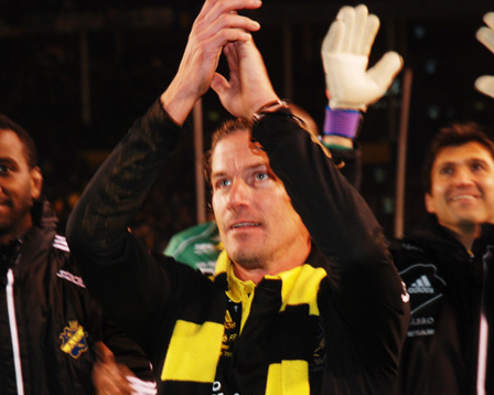 Daniel Tjernström, captain of AIK, after the 2012 match AIK-Malmö FF